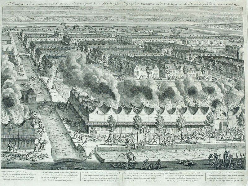 Engraving. Massacre of the Chinese in Batavia on October 9th, 1740